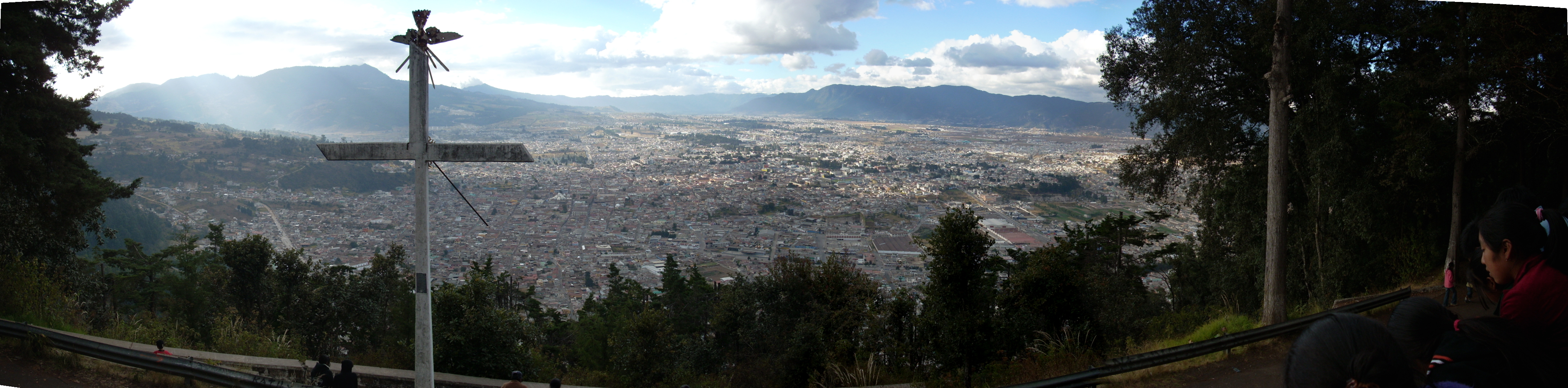 View of the Guatemalan city of Quetzaltenango, taken from El Baúl viewpoint. The Siete Orejas volcano is immediately to the left of the upper portion of the cross. Below and to the right of the tip of the right arm of the cross are the cathedral, the central park and the former lawcourts.